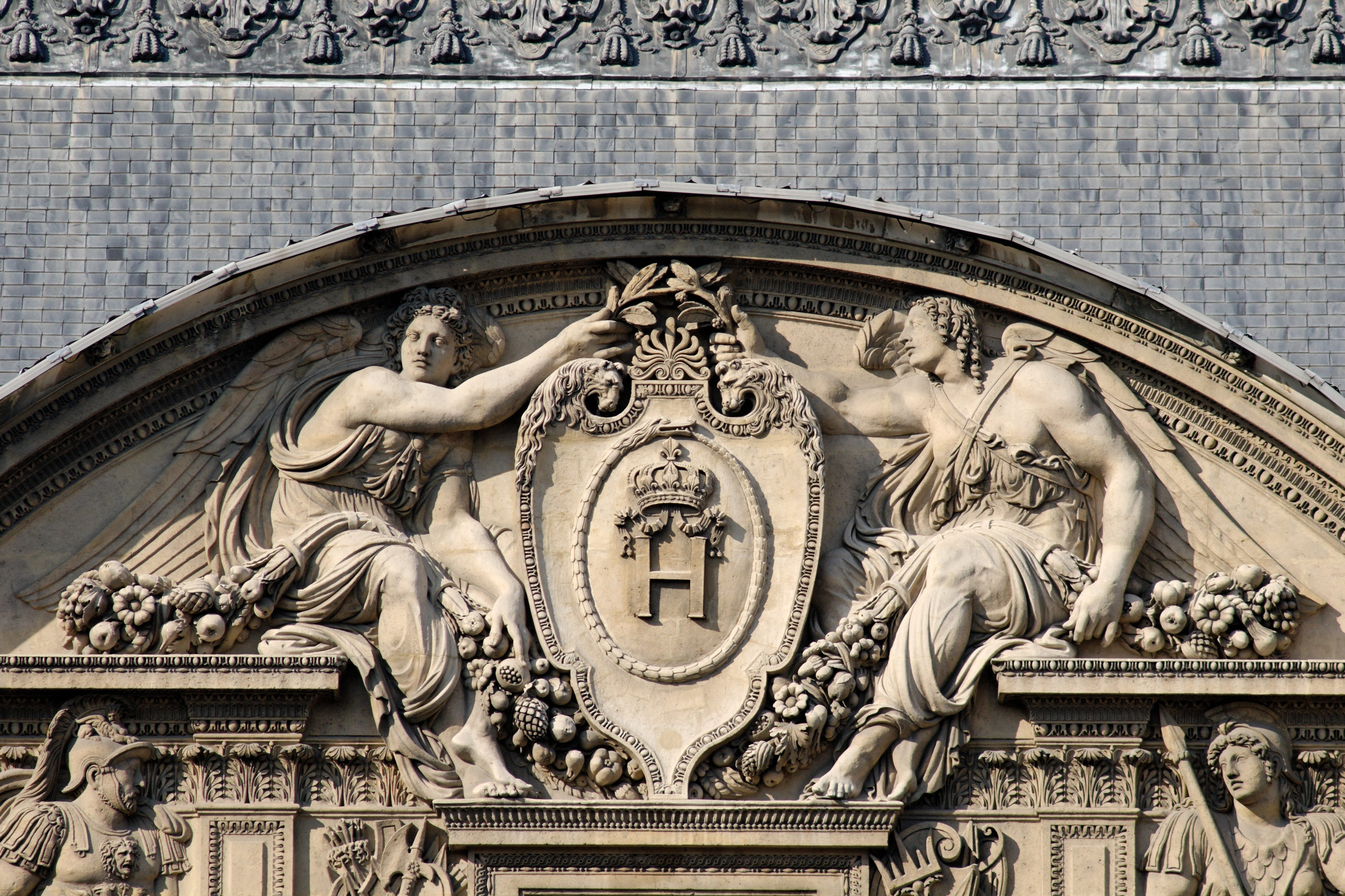 Allegory of War, with two angels bearing the monogram of Henry II of France, by Jean Goujon. Center pediment of the east facade of the Lescot wing, the left part of the west façade of the Cour Carrée in the Louvre Palace, Paris.